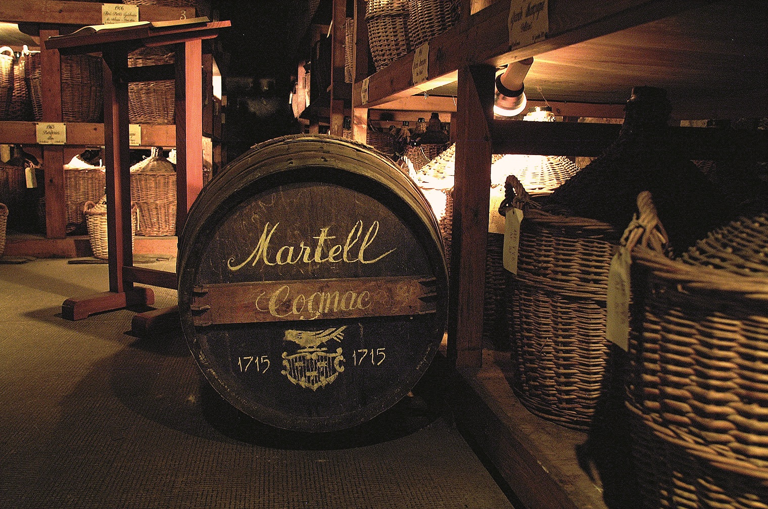 Martell barrells